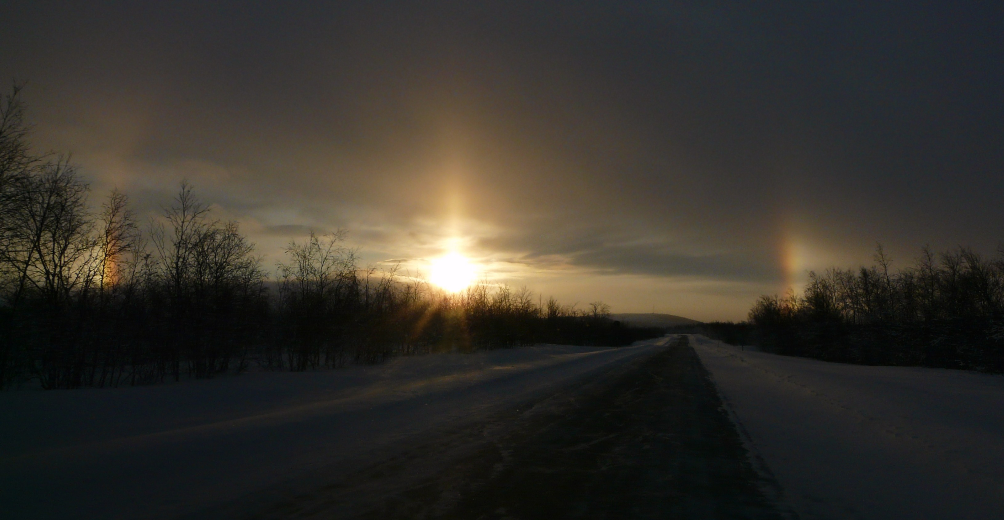 A halo phenomenon seen from the Finnish national road 21 (E8) at the southside of Ropi in 2009 February morning.